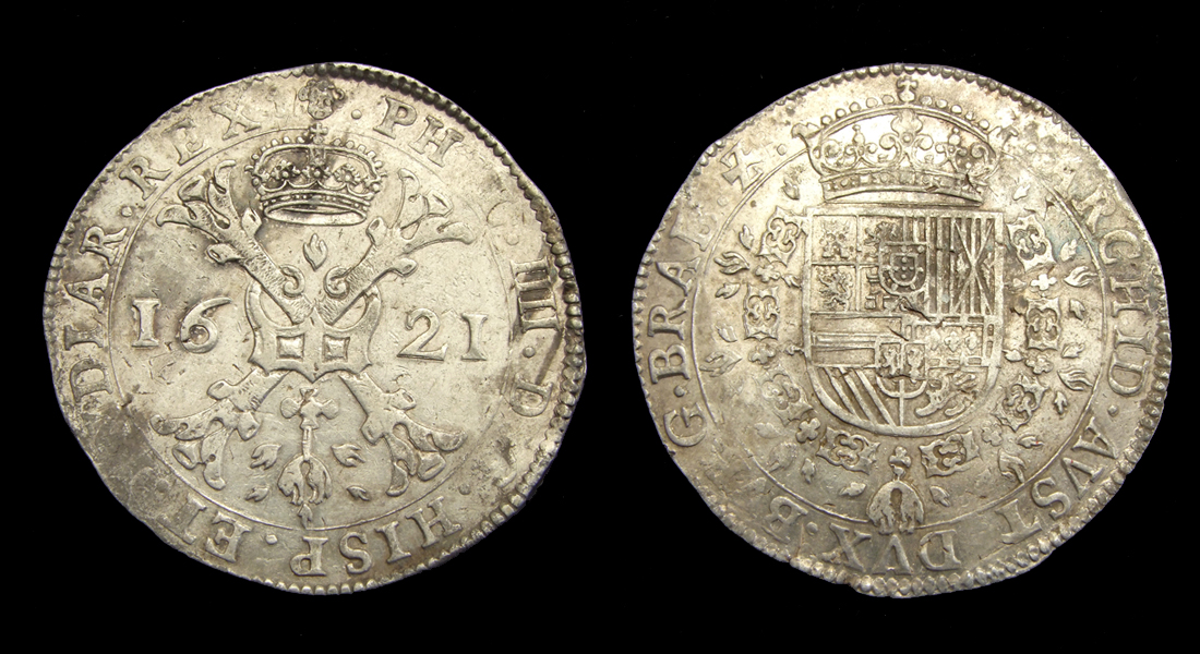 Low Countries, Philip IV, Patagon, struck in Brussels in 1621